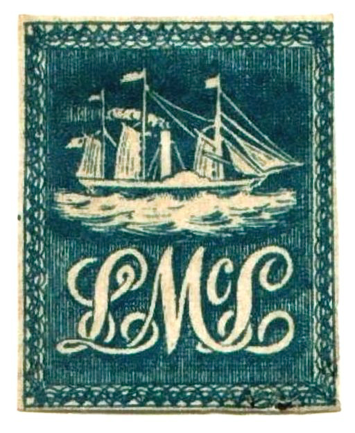 Trinidad postage stamp, issue of 1847